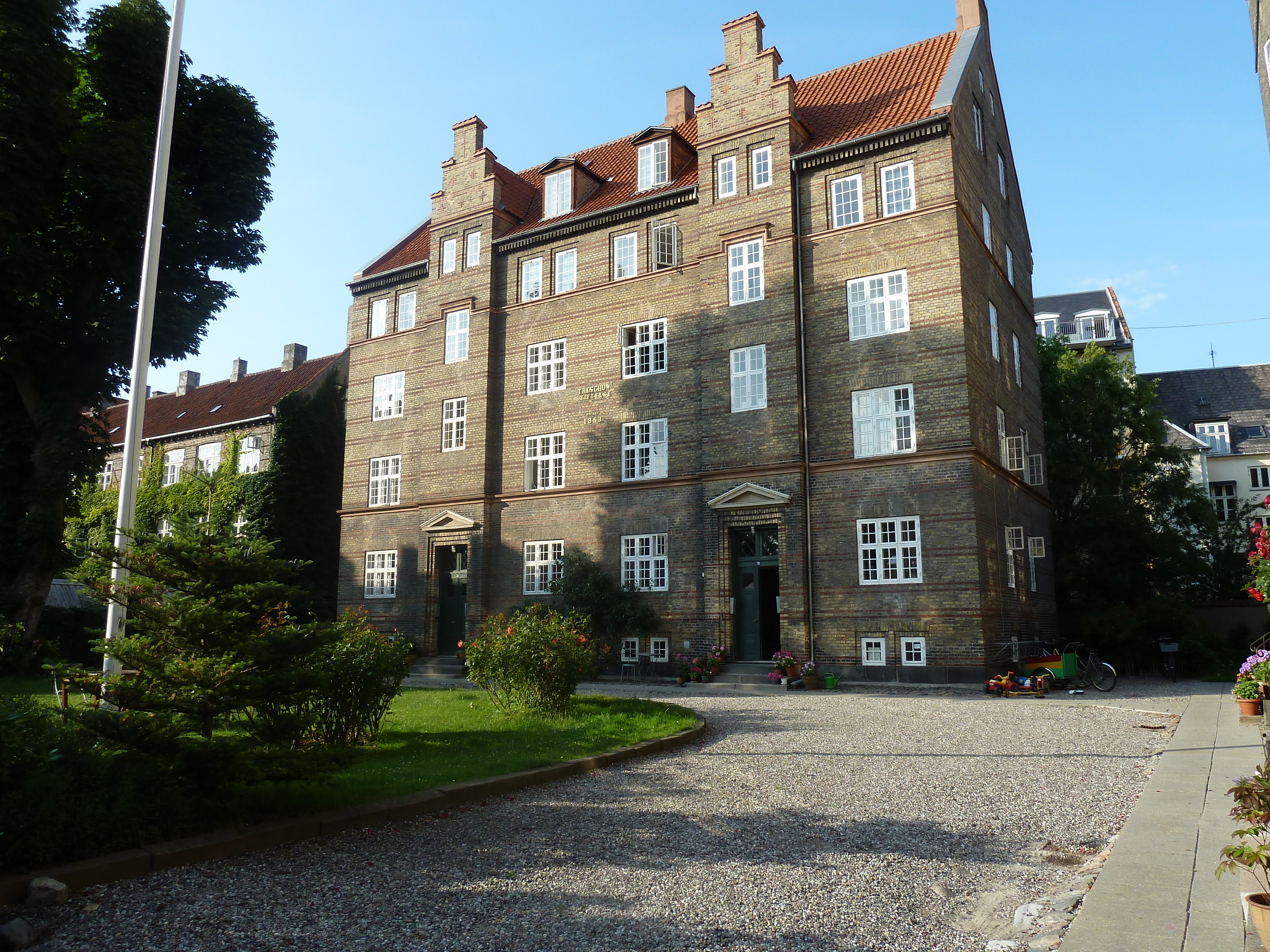 Treschows Stiftelse in the Christianshavn neighbourhood of Copenhagen, Denmark